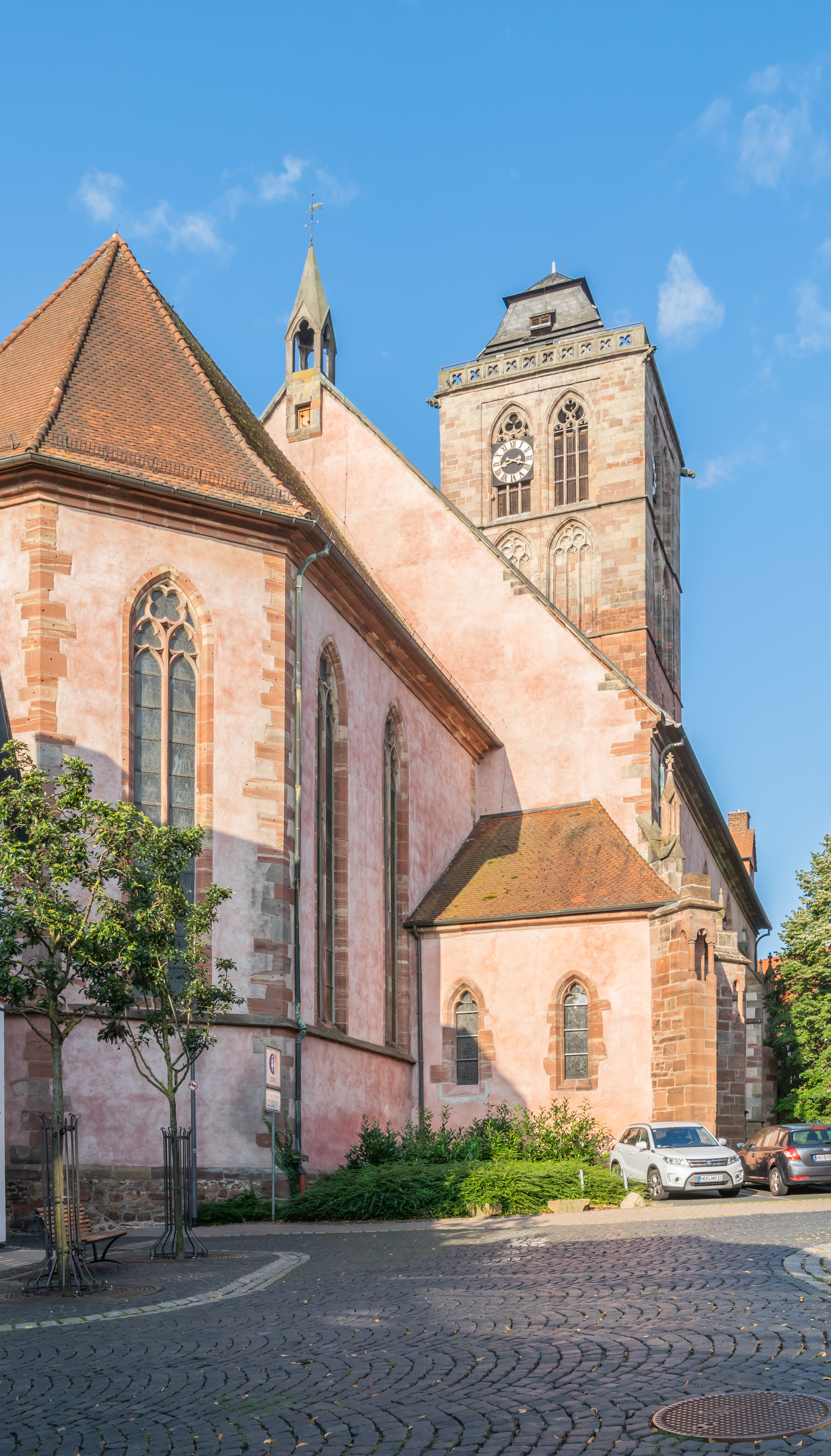 Protestant city church in Bad Hersfeld, Hesse, Germany